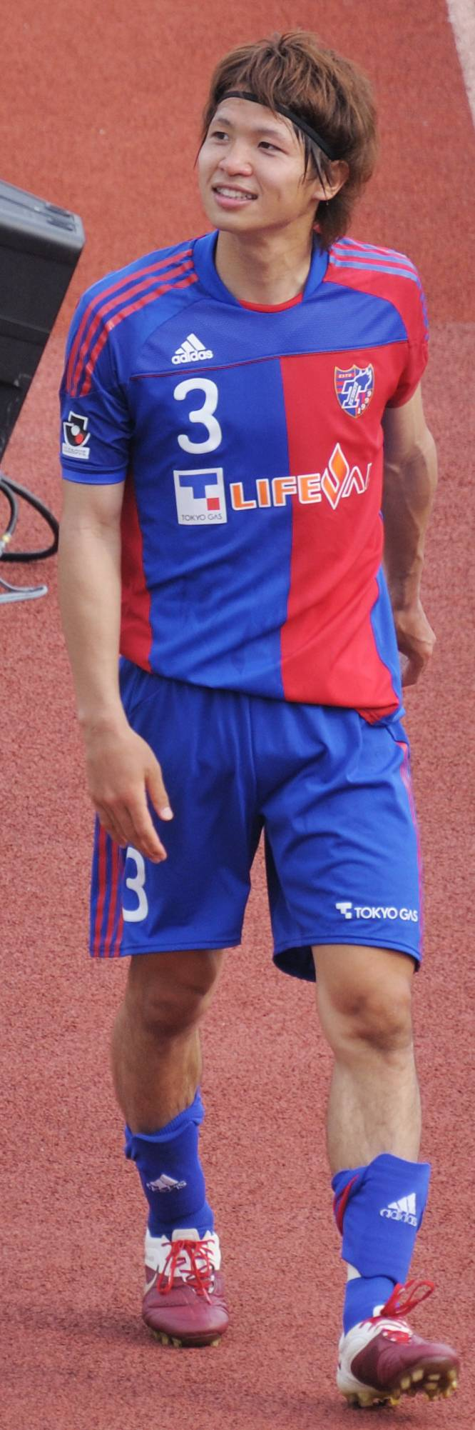 Masato Morishige -off cropped from DSC_4428